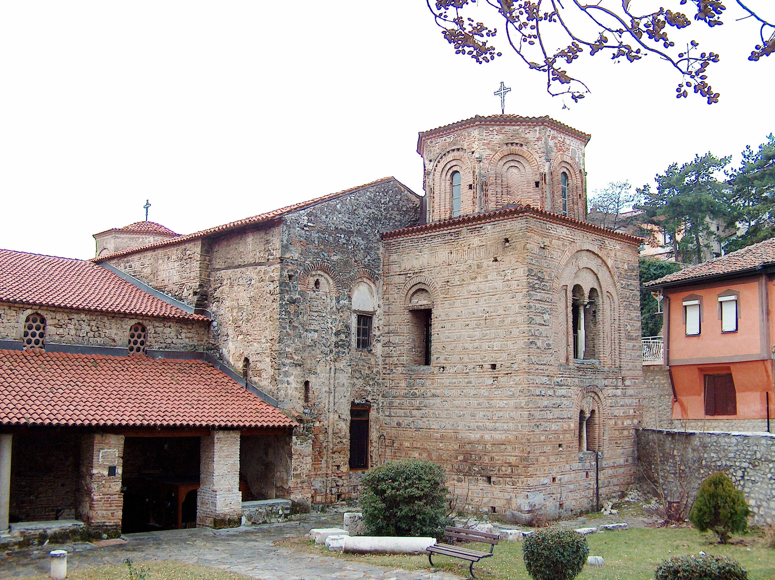 St. Sophia's Church in Ohrid, Republic of Macedonia.